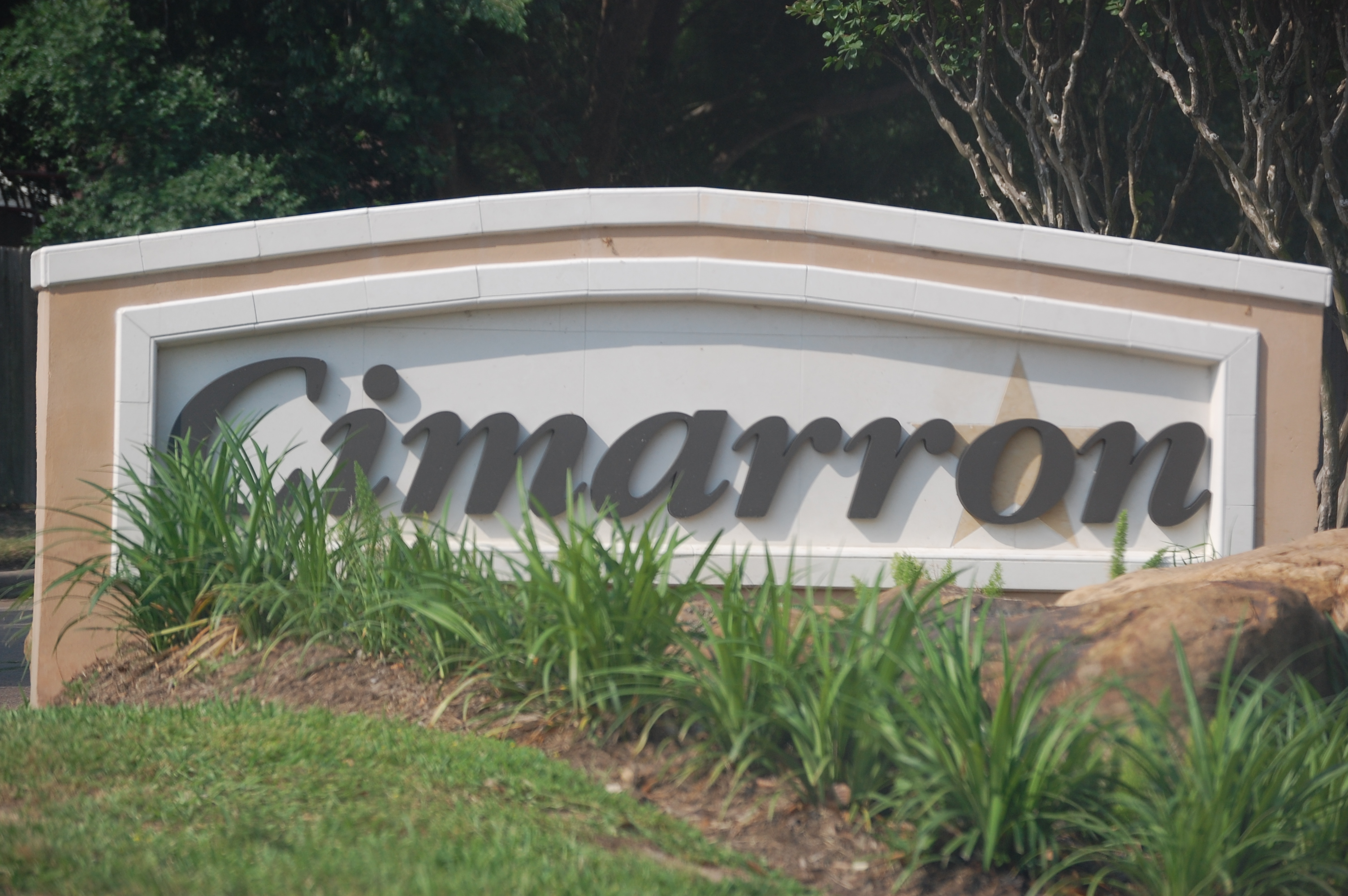 Sign in front of the Cimarron development